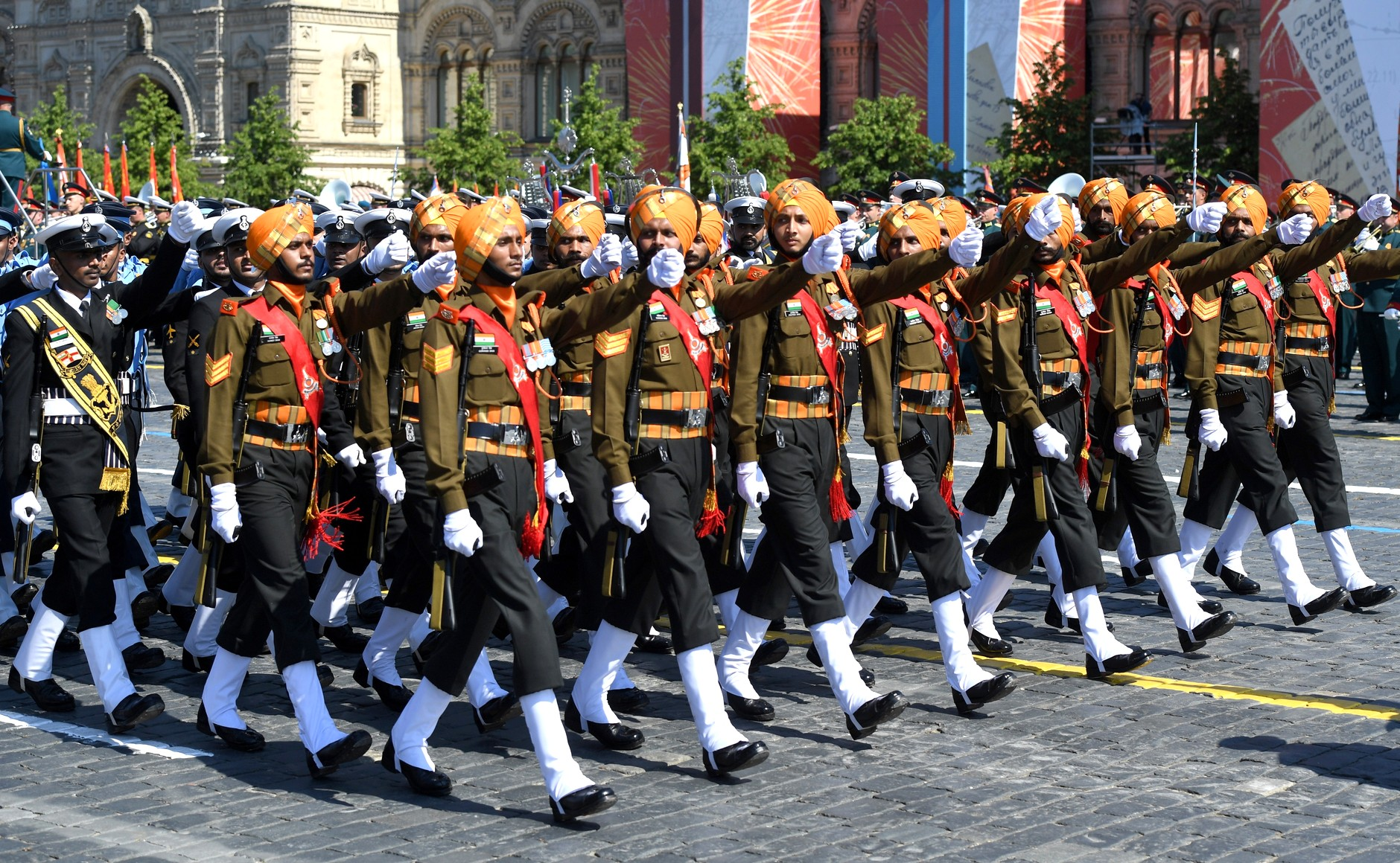 2020 Moscow Victory Day Parade Аҧсшәа: Военный парад на Красной площади в Москве 24 июня 2020 года